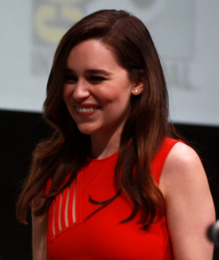 English actress Emilia Clarke speaking at the 2013 San Diego Comic Con International, for "Game of Thrones", at the San Diego Convention Center in San Diego, California.